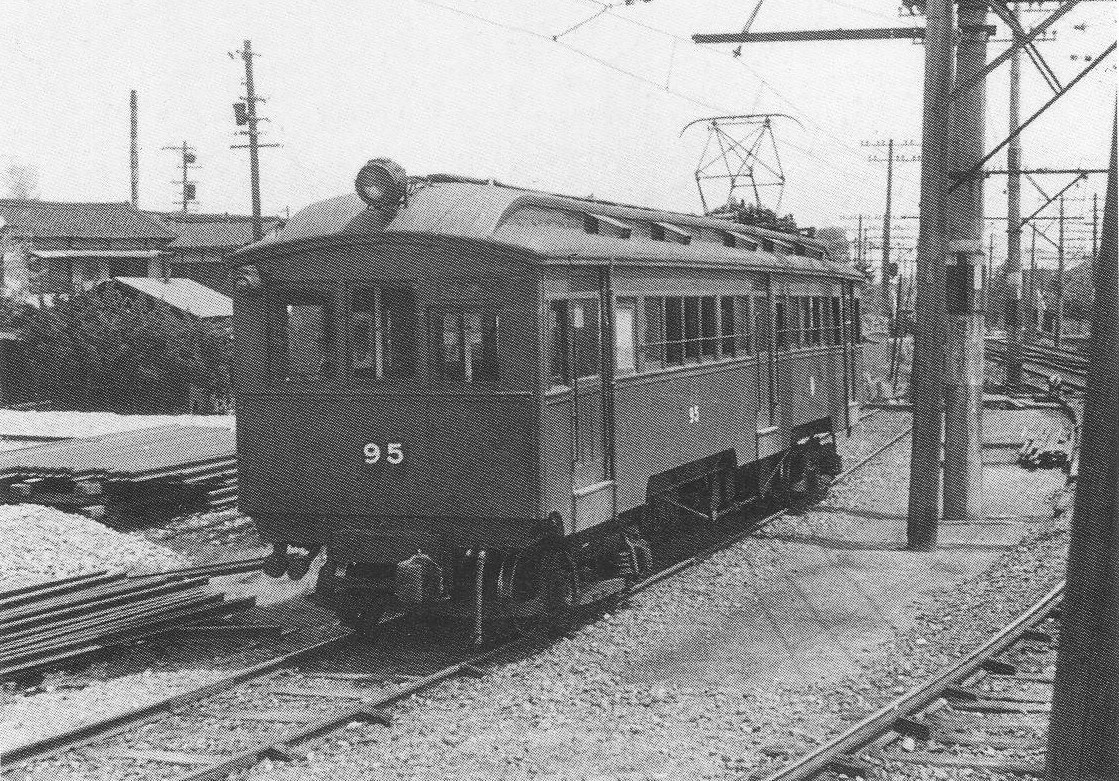 Hankyu 90 Series EMU No. 95 at Tsukaguchi Station